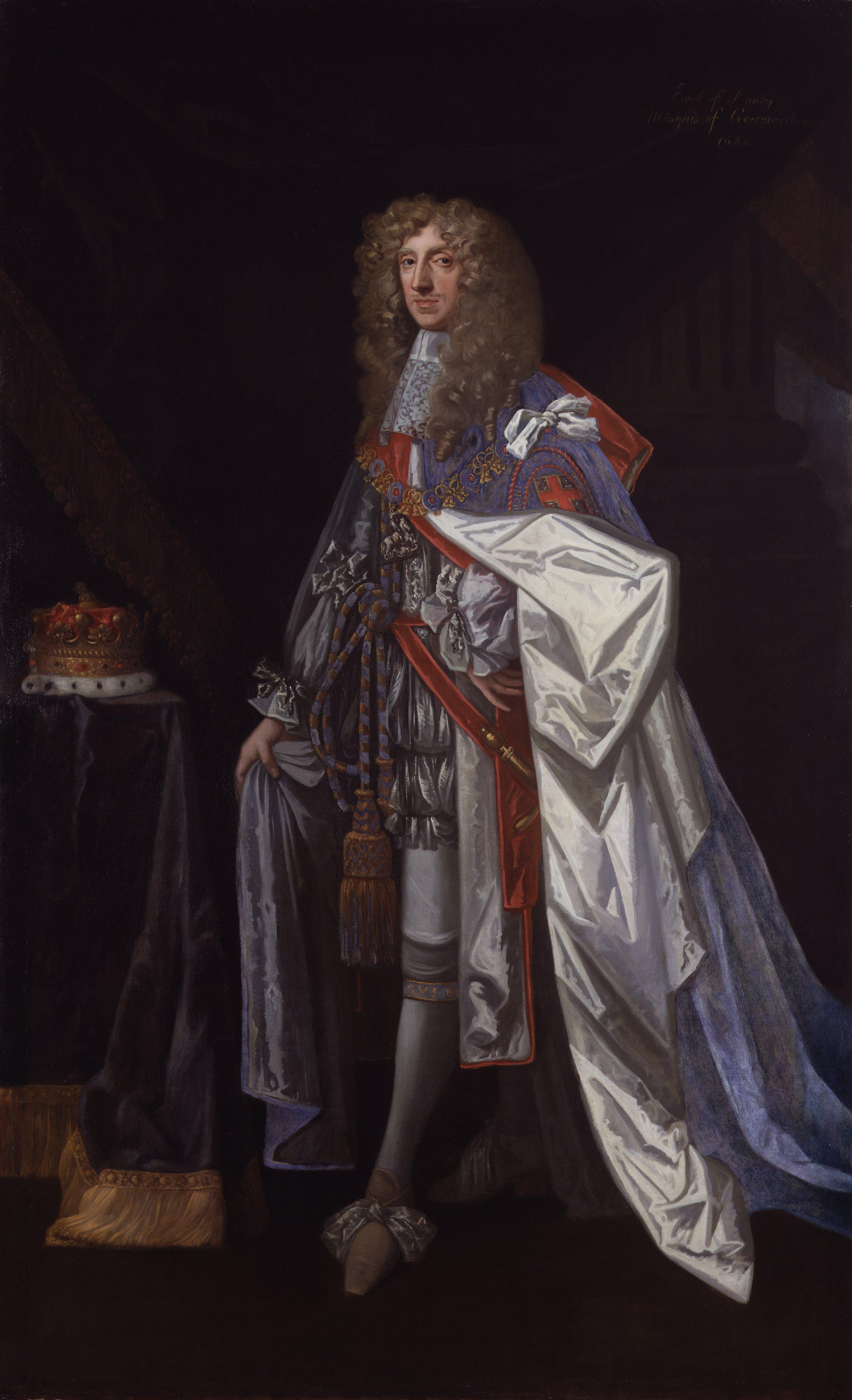 Thomas Osborne, 1st Duke of Leeds (1631–1712)